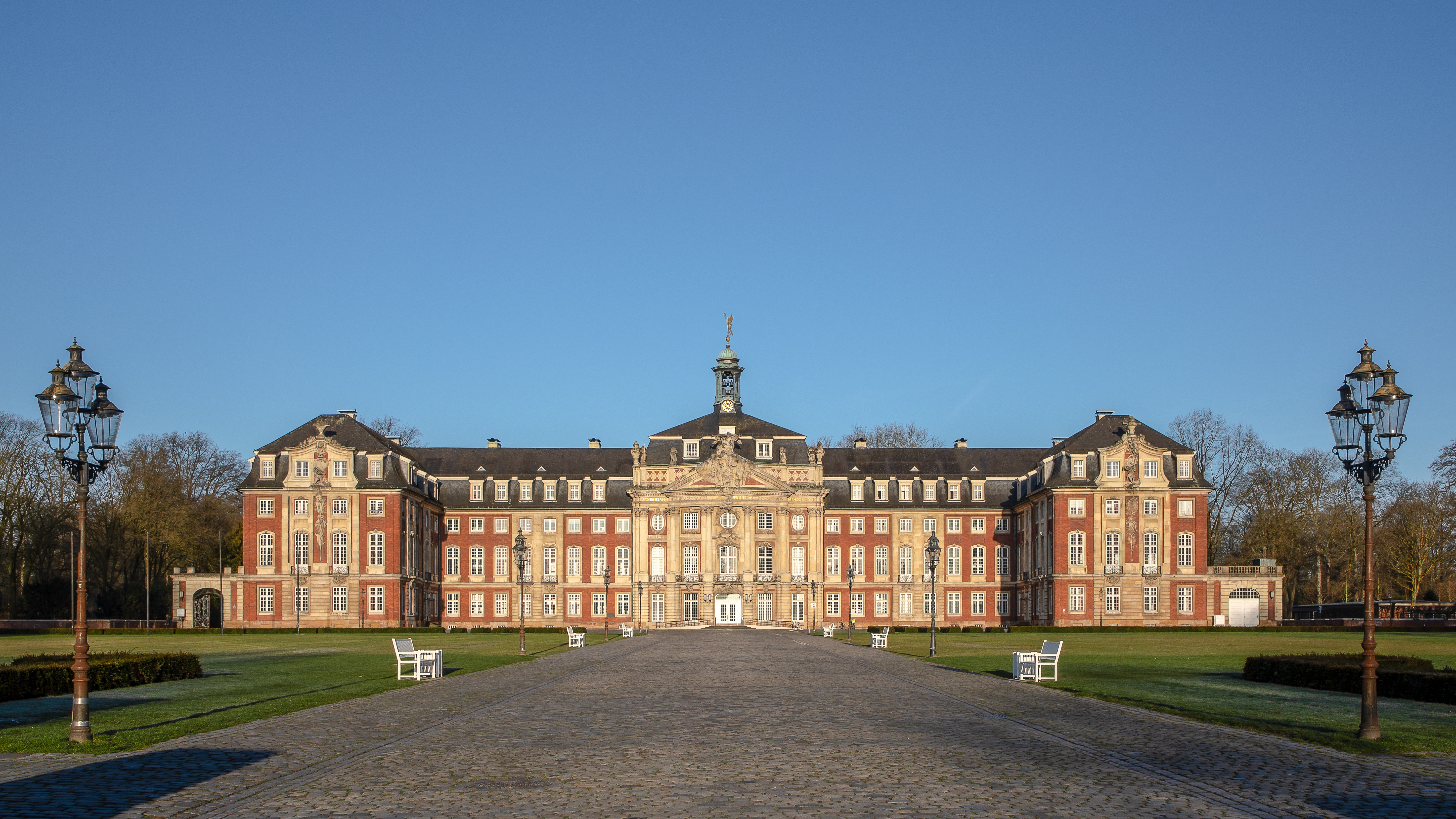 Prince Bishop's Castle Münster, Münster, North Rhine-Westphalia, Germany